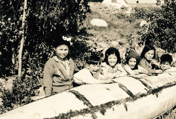 'Kids by canoe' ~ (Dene) ~ La Loche, Sask 1943